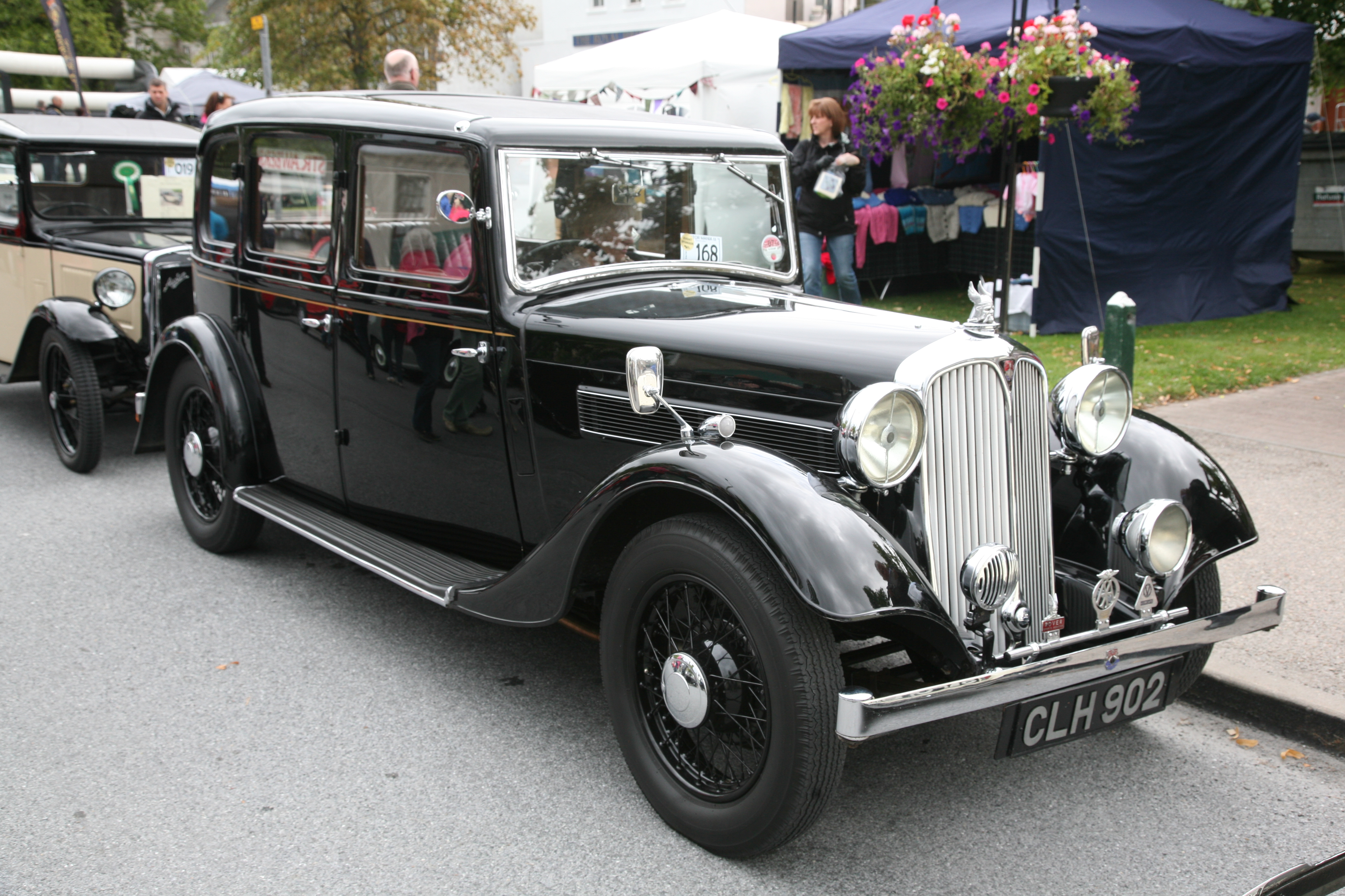 Rover P1 1935(DVLA) first registered 31 December 1935, 1479cc